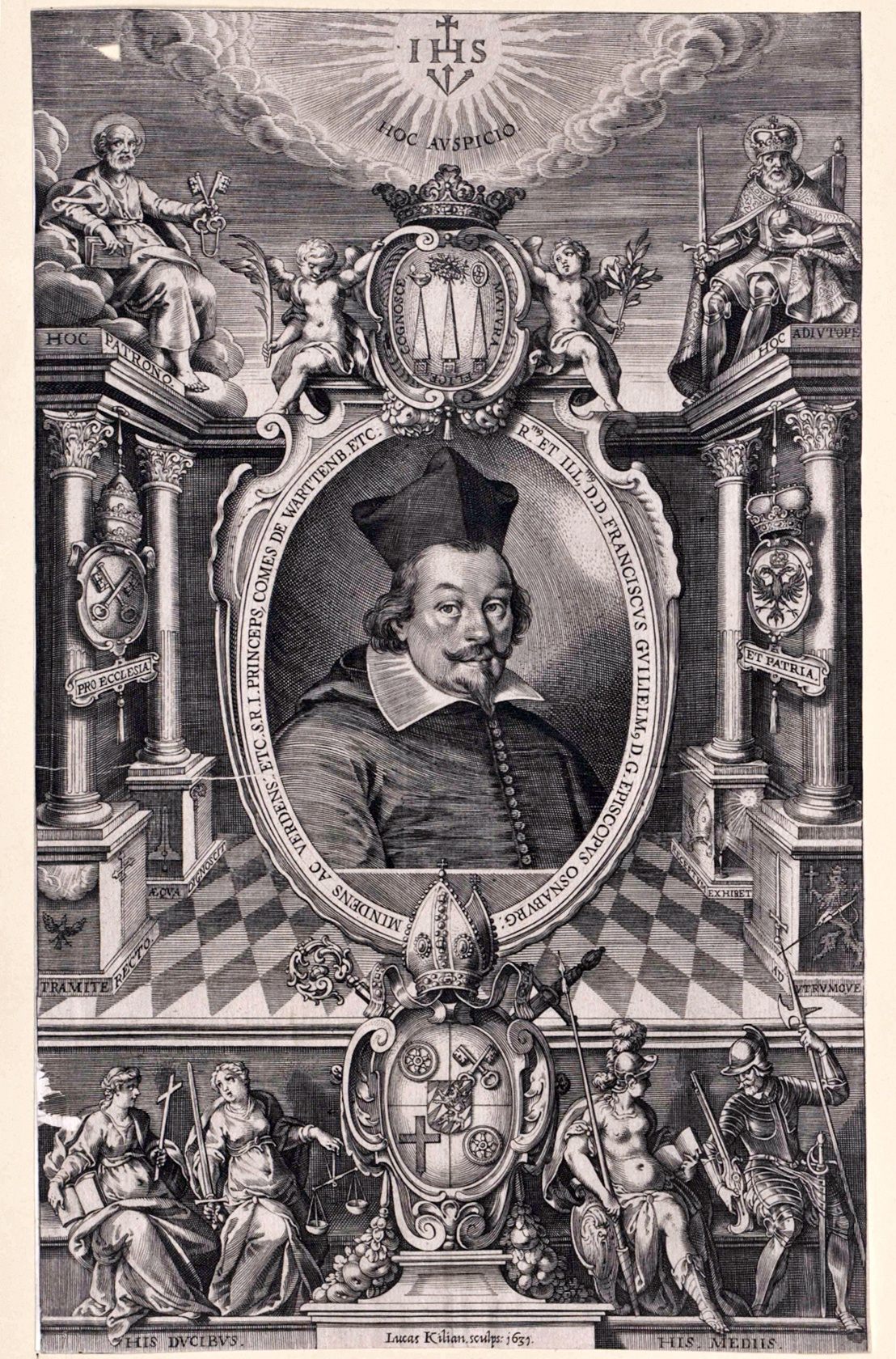 Kardinal Franz Wilhelm von Wartenberg (1593-1661)